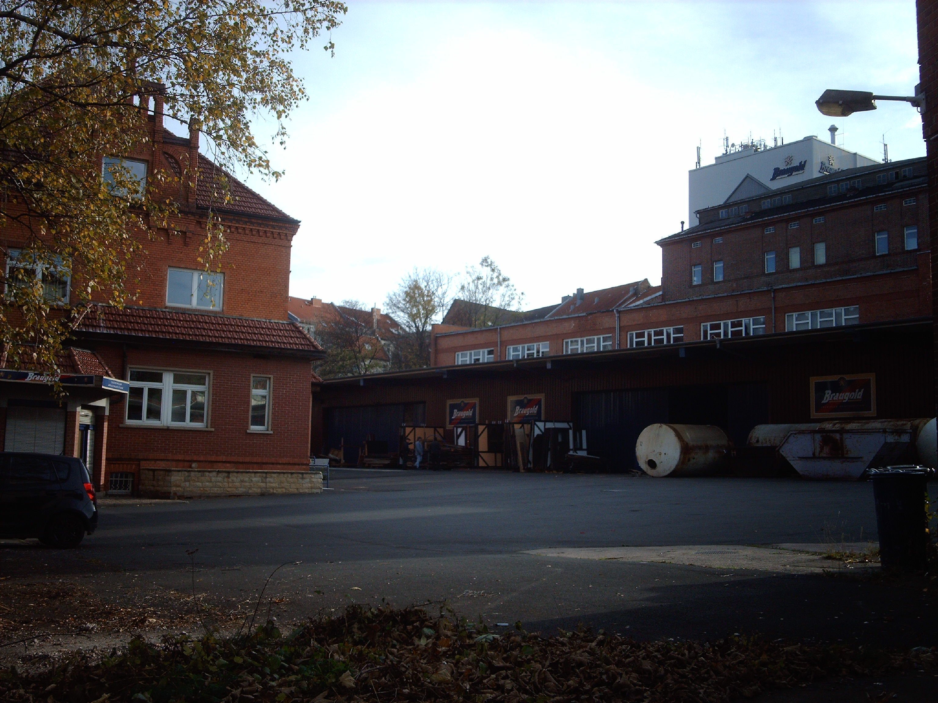 Brewery Braugold at street Schillerstrasse in Erfurt, Thuringia, Germany